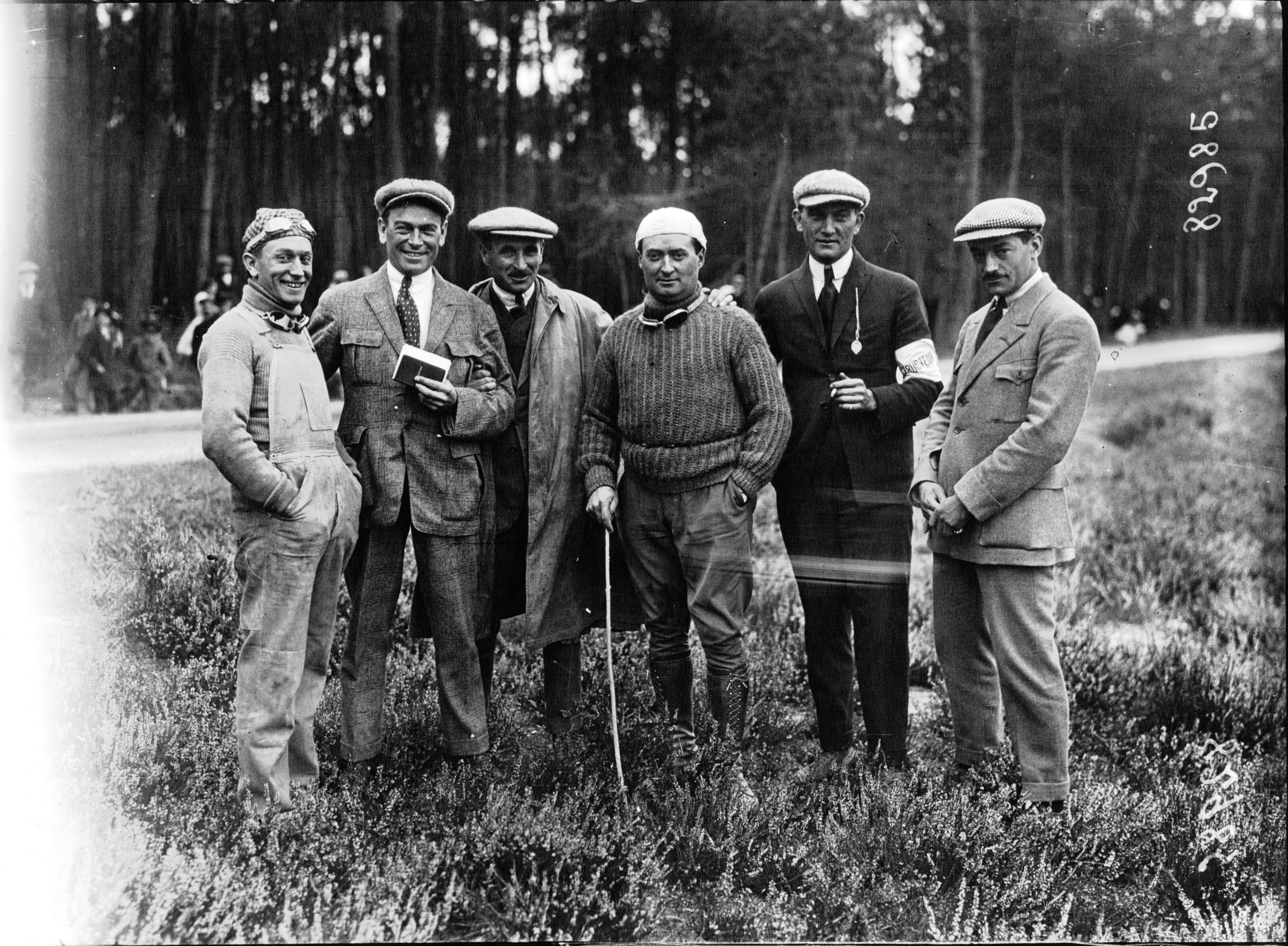 Wagner, Chassagne, Guyot, Stoffel and Boillot.